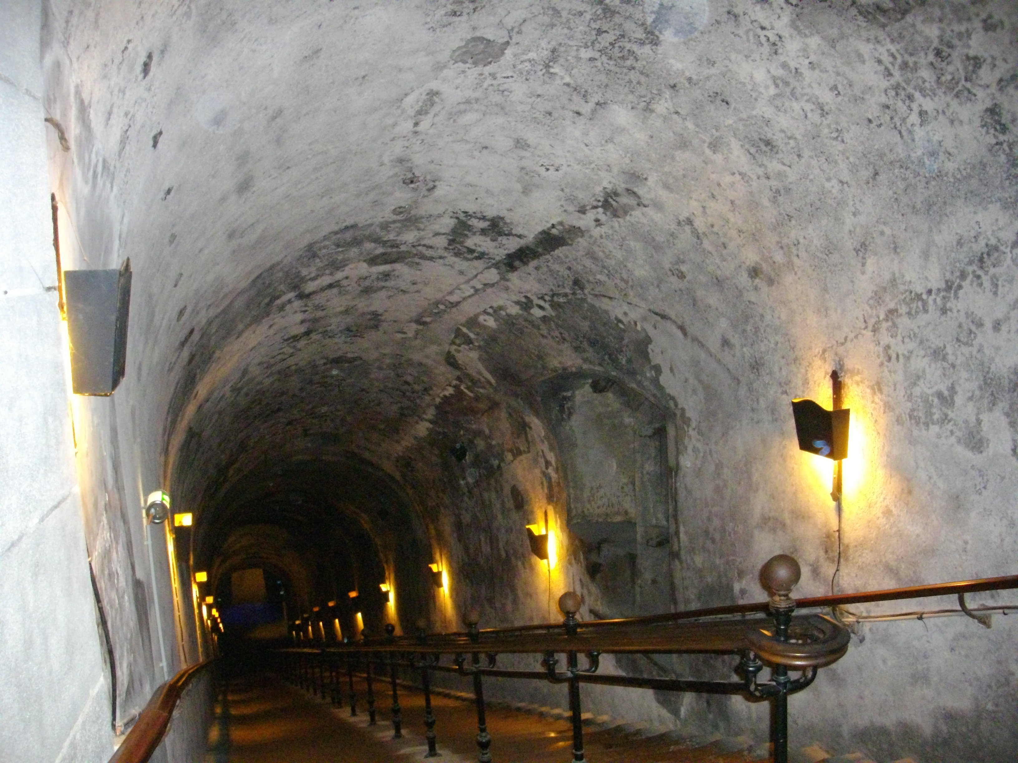 Cellars of champagne house Vranken-Pommery, Henri Vasnier boulevard, in Reims (Marne, France)